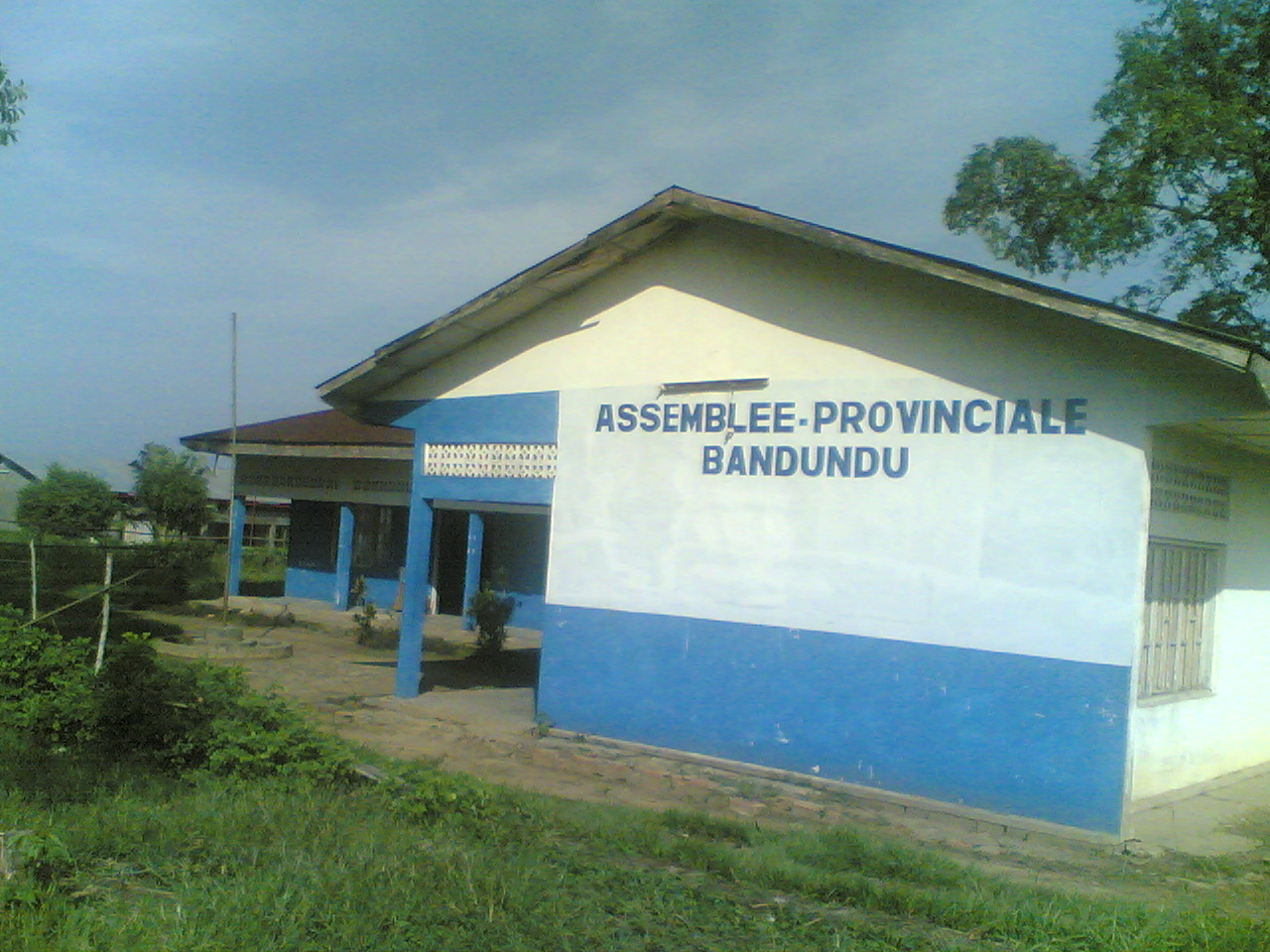 Seat of the Provincial Assembly, Bandundu, DRC